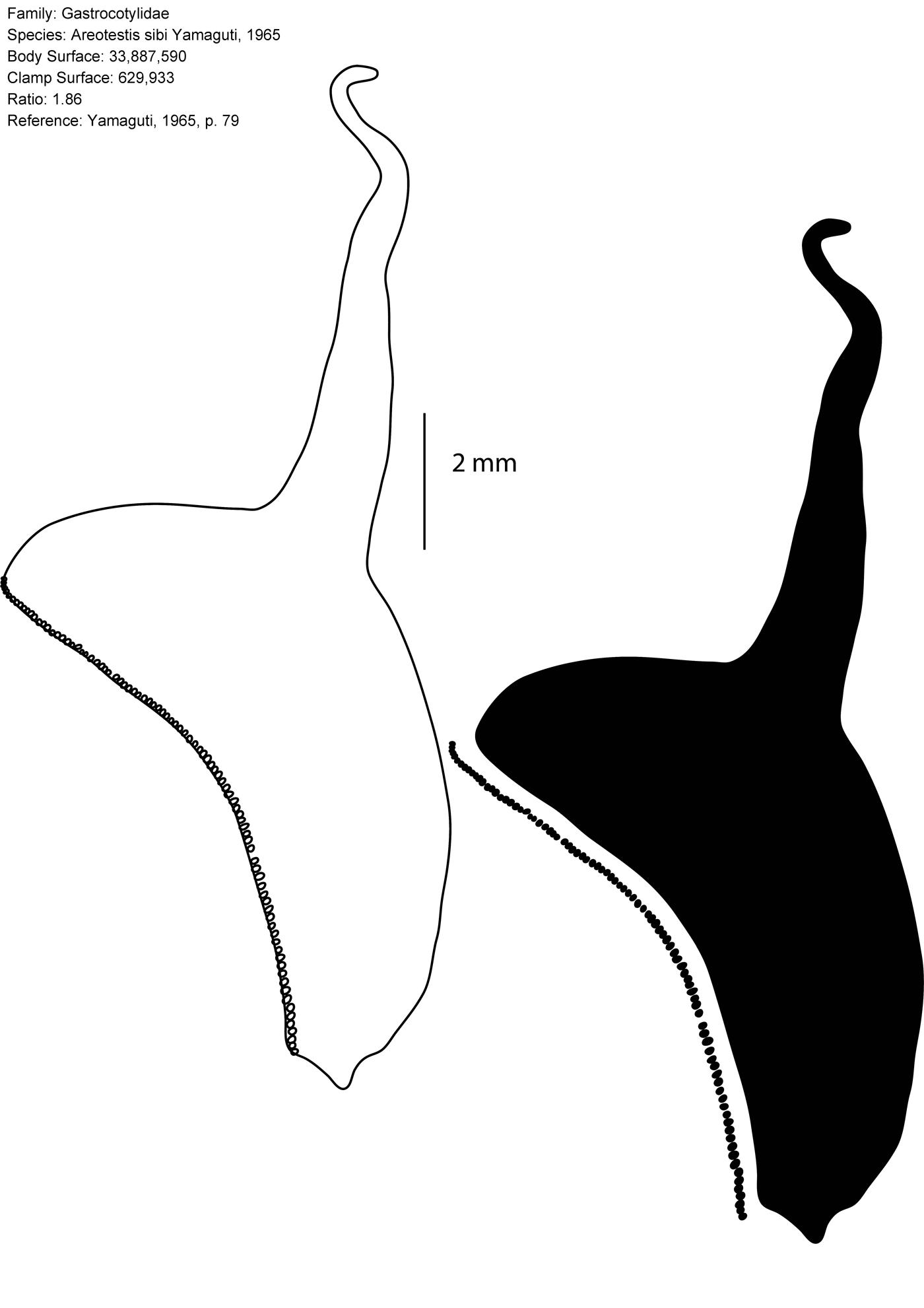 Areotestis sibi Yamaguti, 1965 (Gastrocotylidae) Cropped from: Supporting Information file S1 PDF of all figures and measurements of clamp and body surfaces. Total number of figures: 120.